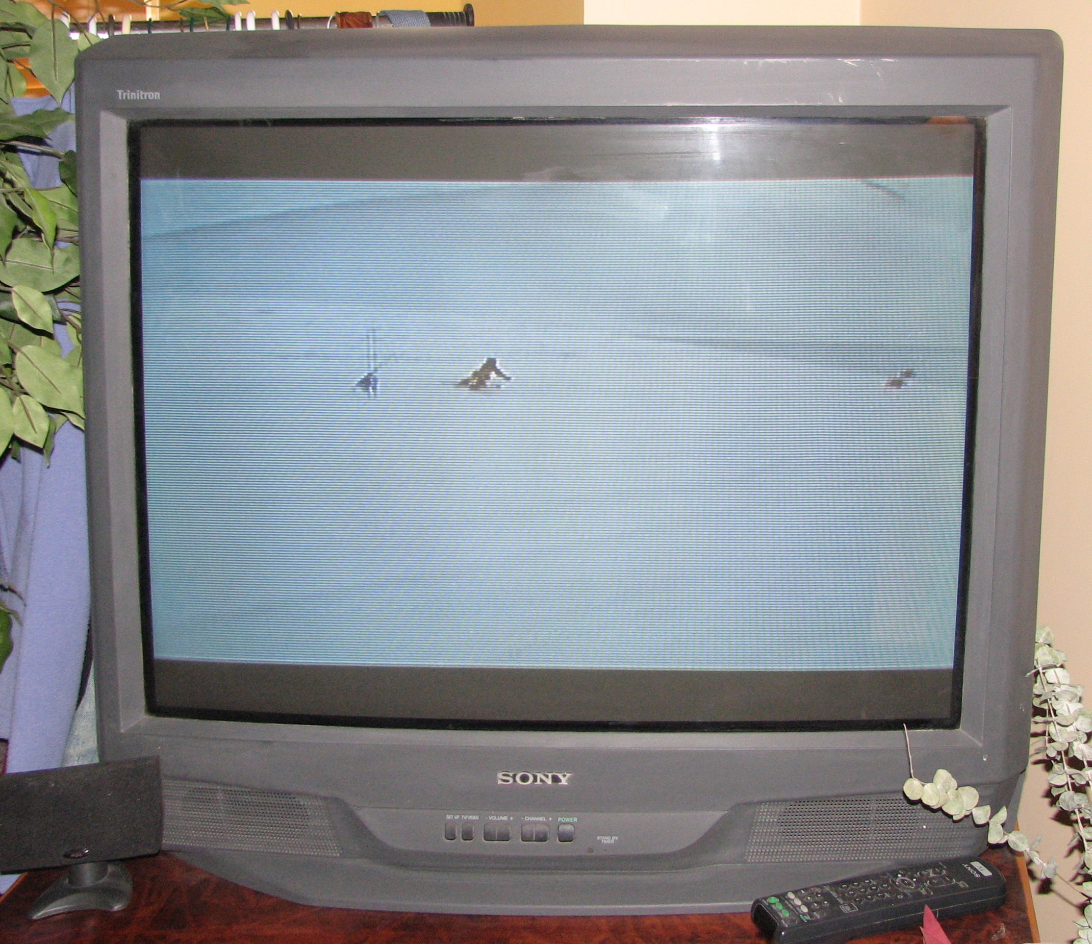 Picture of my Sony KV-32S42 television, a typical late-model Trinitron set made in 2001.